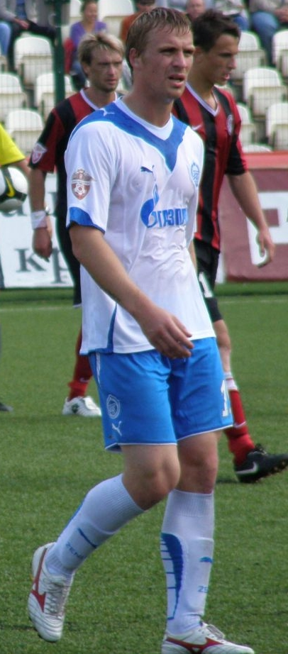 Sergei Kornilenko in action for FC Zenit St. Petersburg